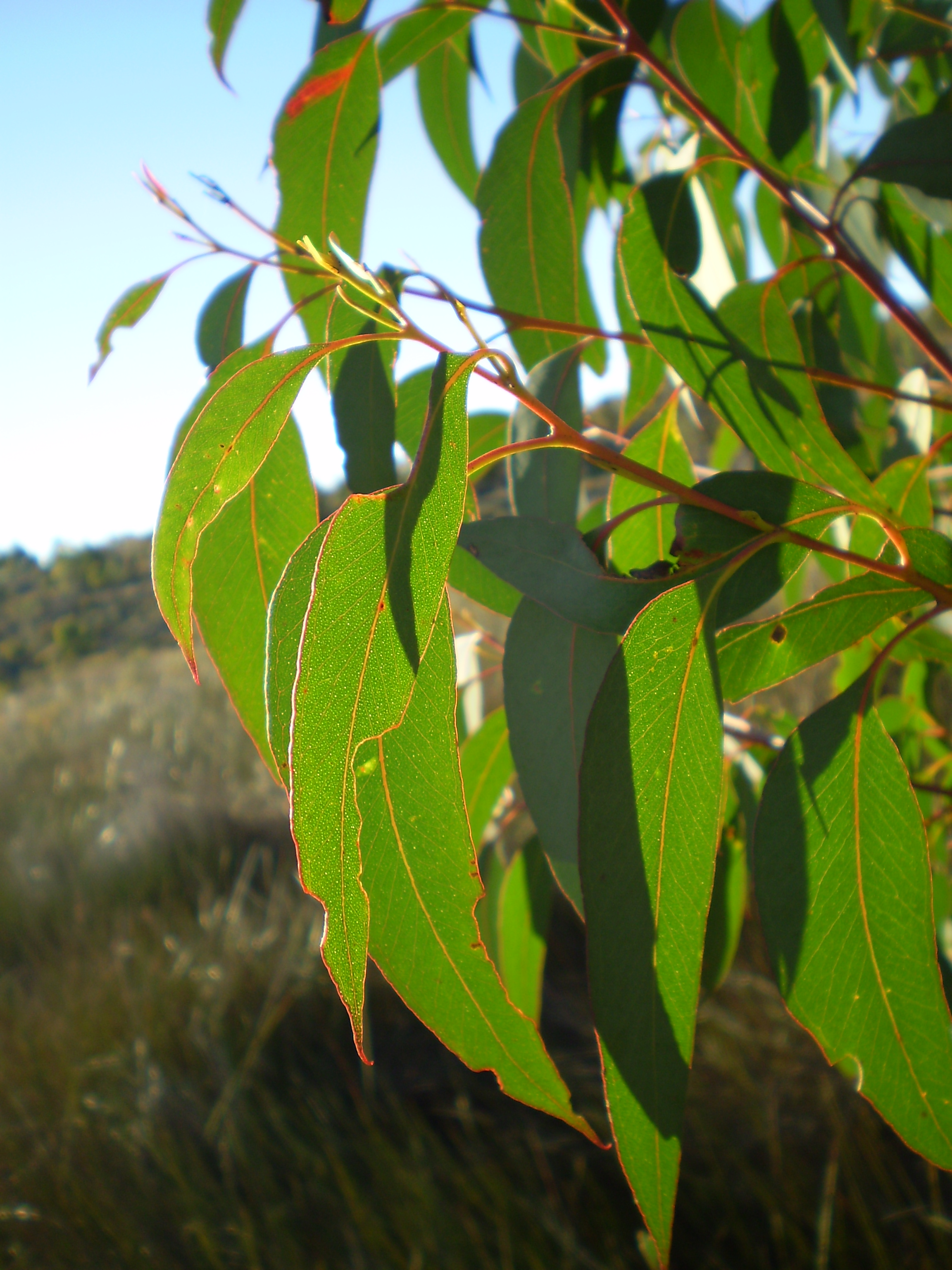 Adult leaves of Eucalyptus olida, showing transparent leaf oil dots.